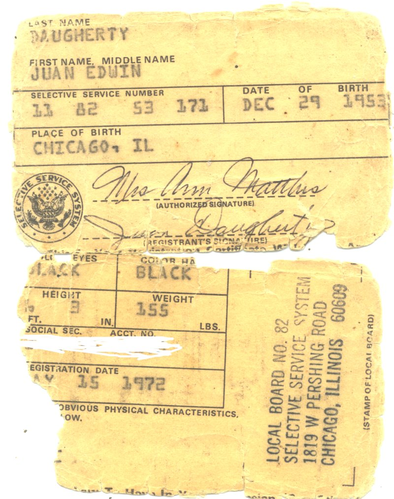 Image of remains of Vietnam War draft card.